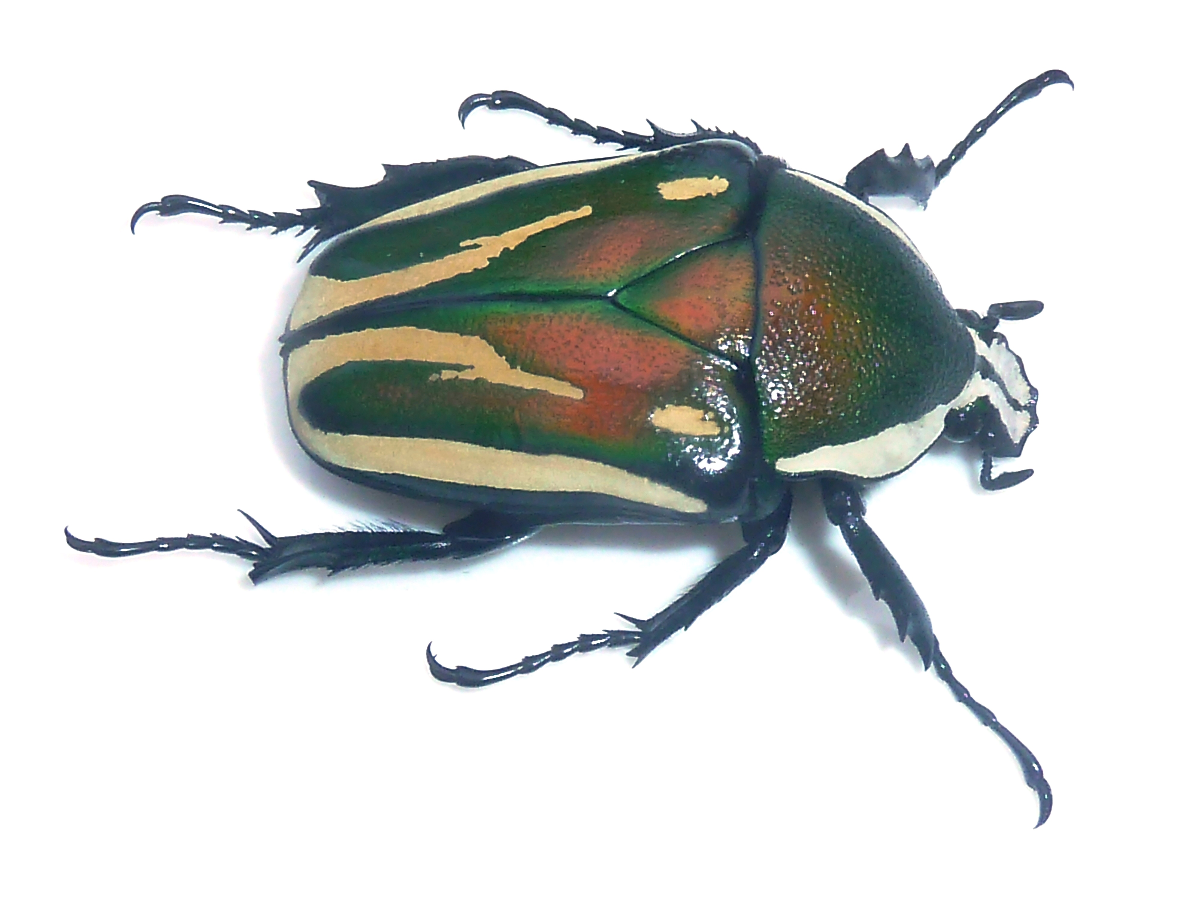 A female Dicronorrhina derbyana subsp derbyana in Pretoria, South Africa